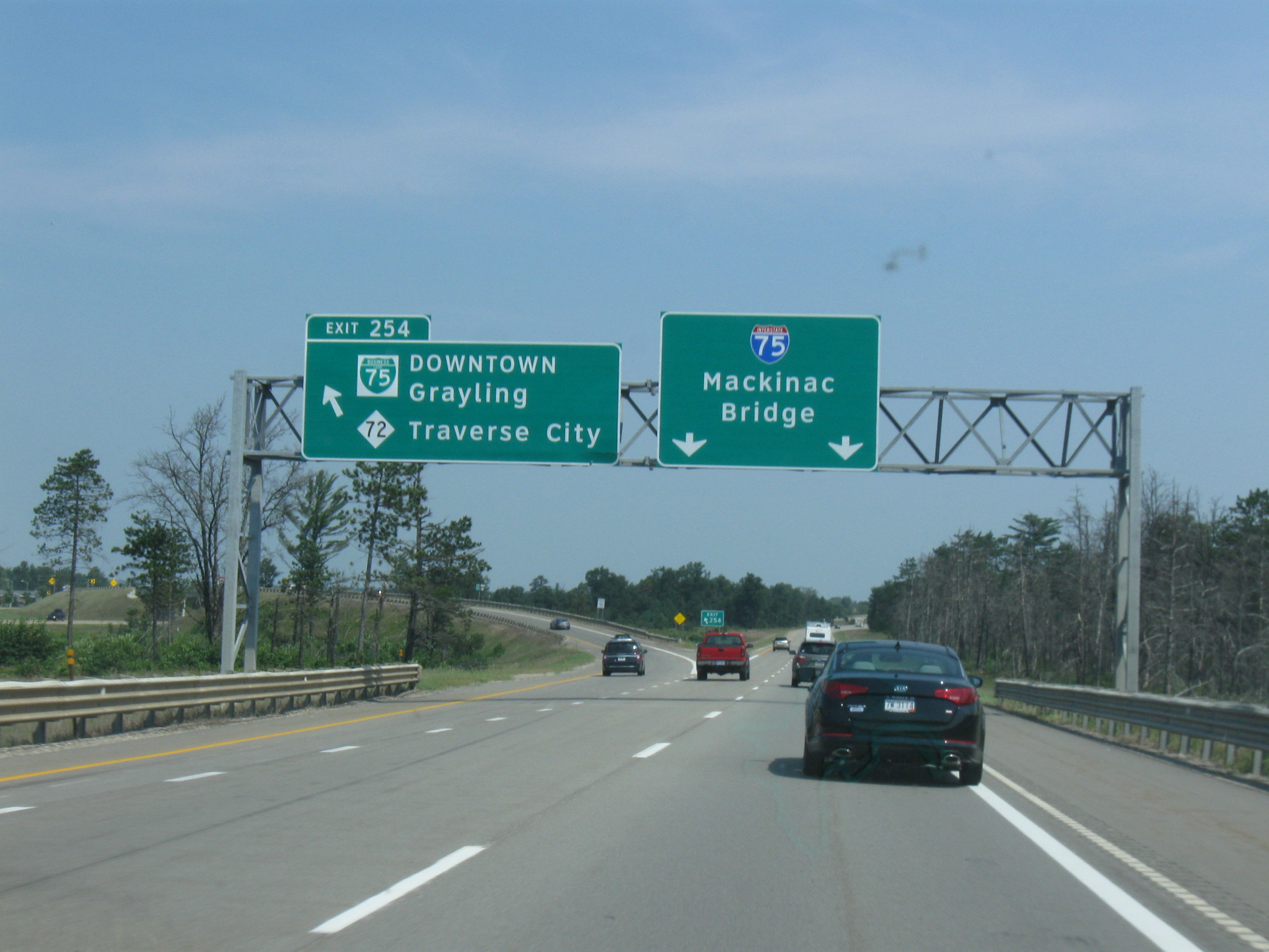 Interstate 75 in Michigan at Exit 254 for Grayling.